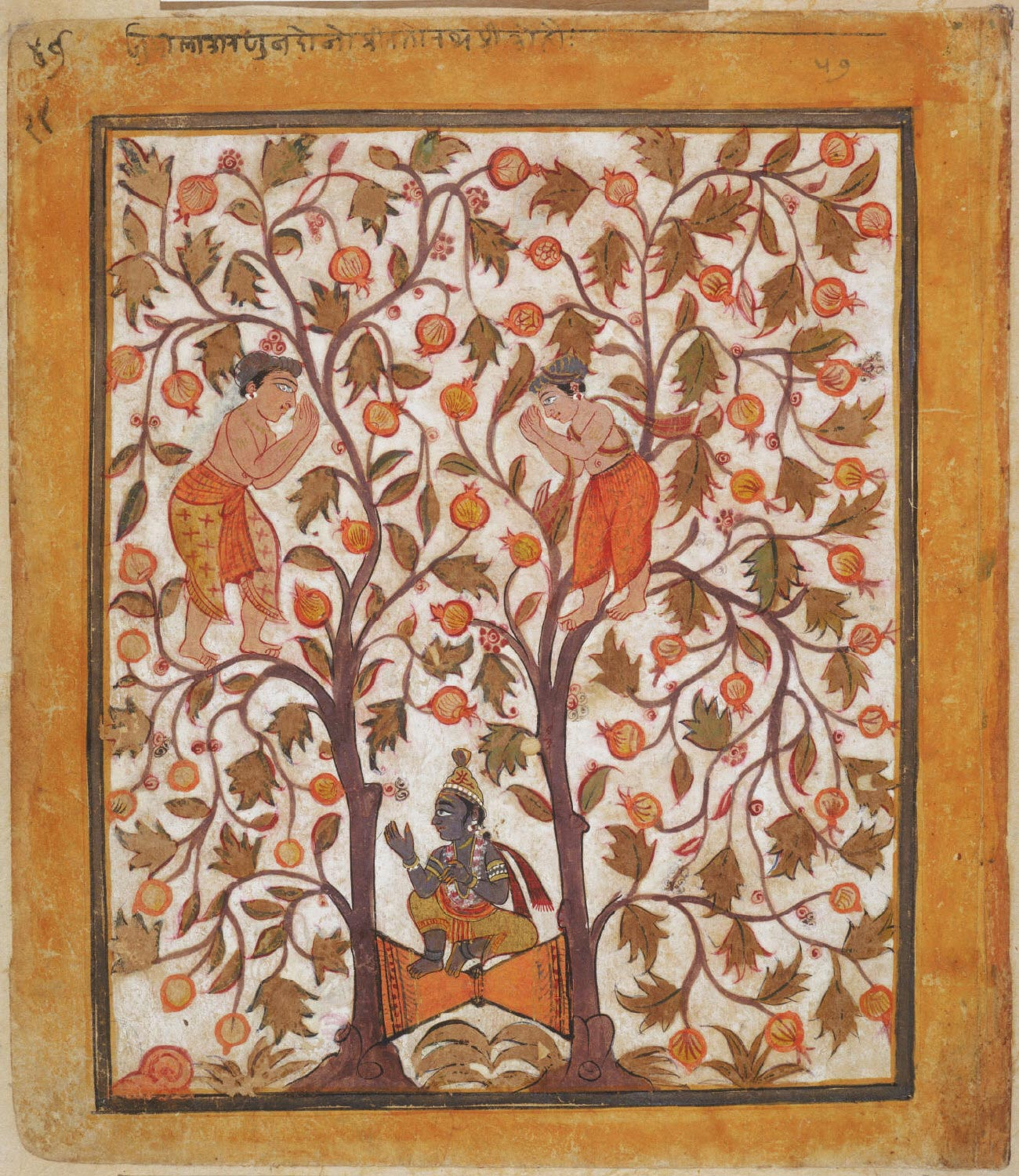 As a child, Krishna was tied to a mortar by Yashoda for stealing freshly churned butter. Nearby was a twin-trunked tree, where a sage had imprisoned two arrogant, drunken sons of Kubera-the god of riches. Krishna rolls the mortar between the trunks and releases the youths.